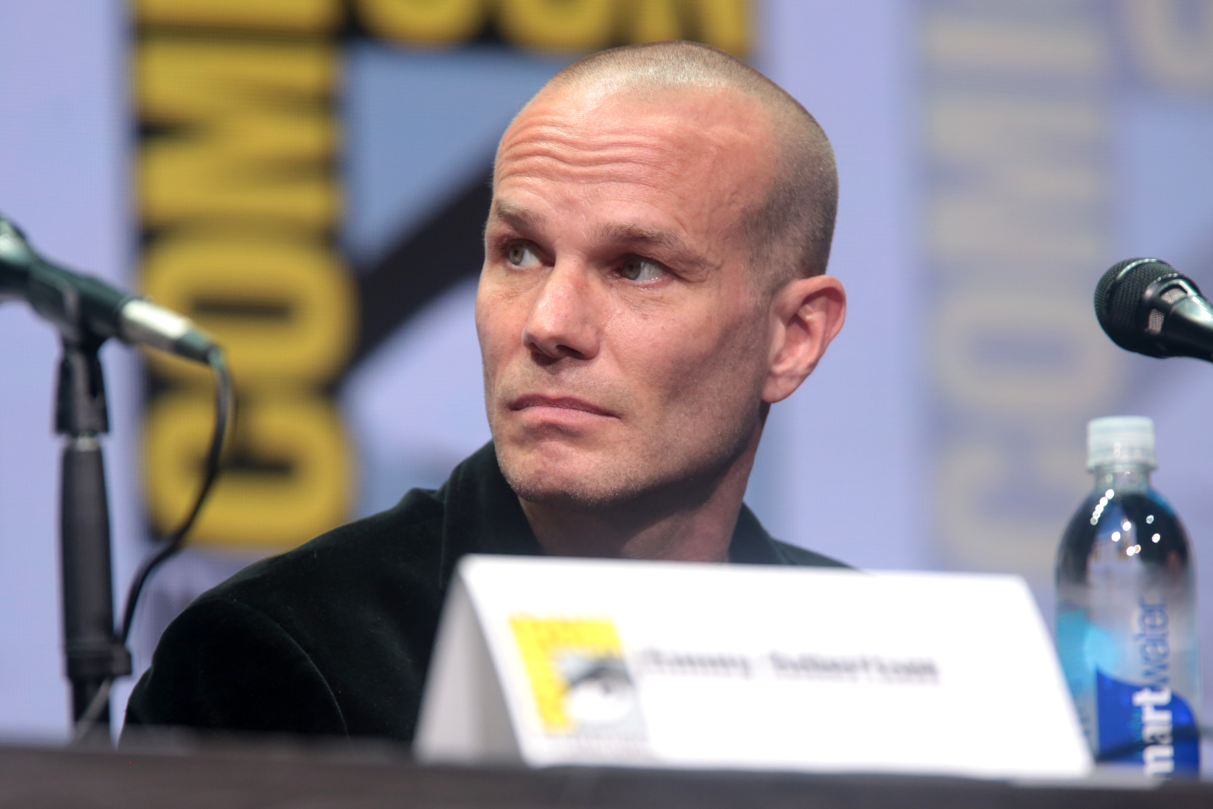 James Marshall speaking at the 2017 San Diego Comic Con International, for "Twin Peaks", at the San Diego Convention Center in San Diego, California.